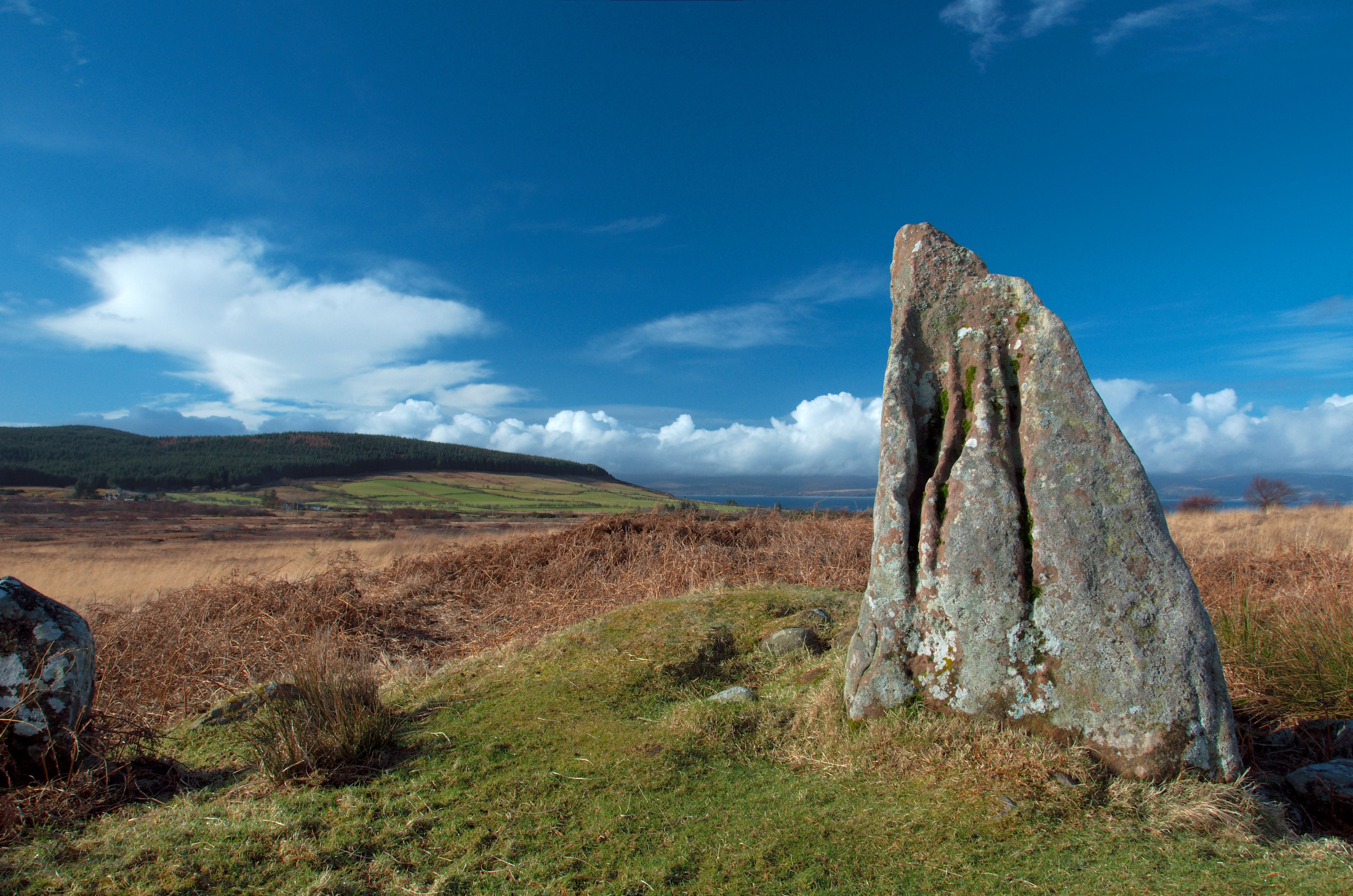 Standing stone on Machrie Moor, Isle of Arran, Scotland.